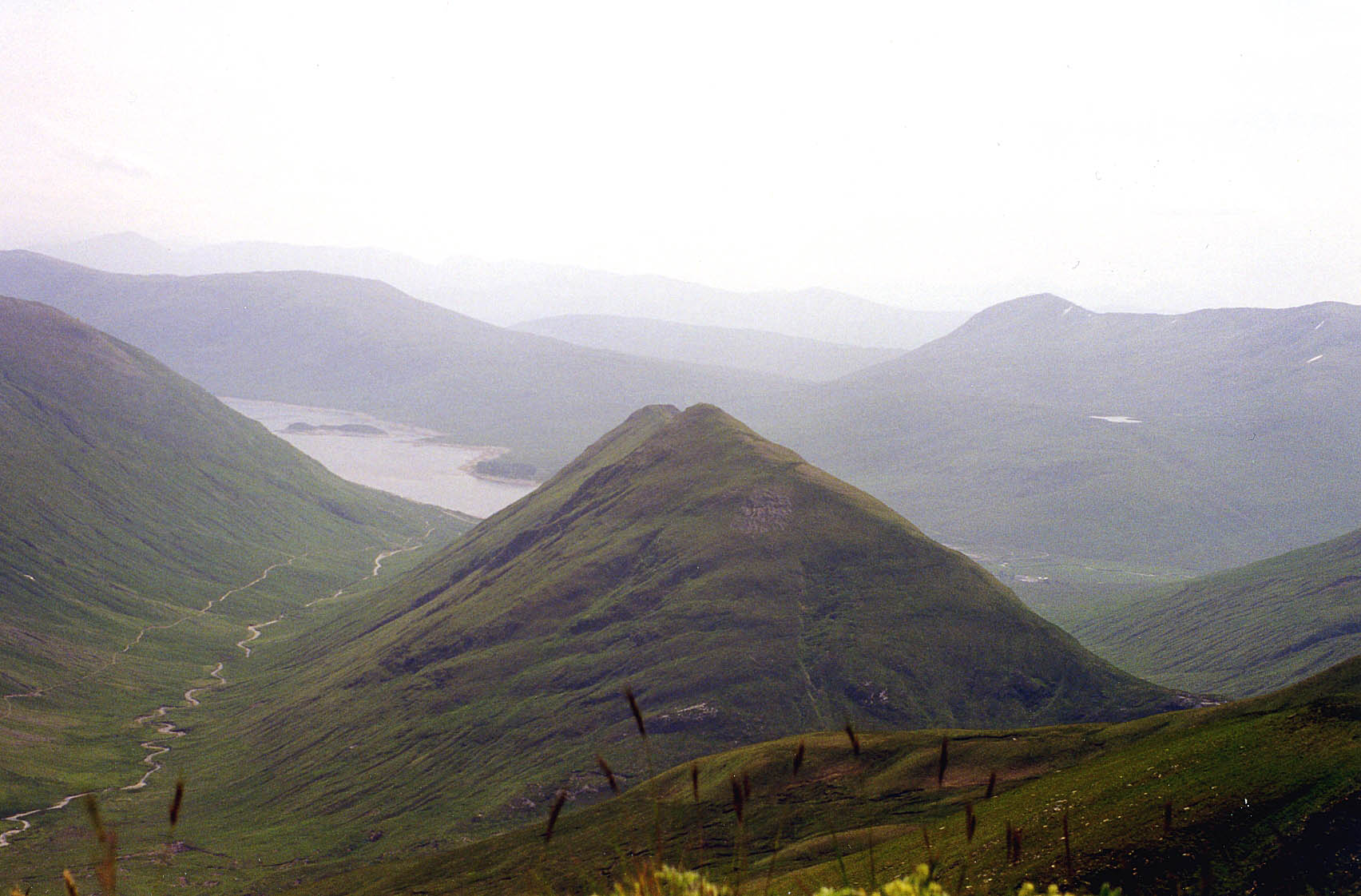 Personal picture taken by Mick Knapton